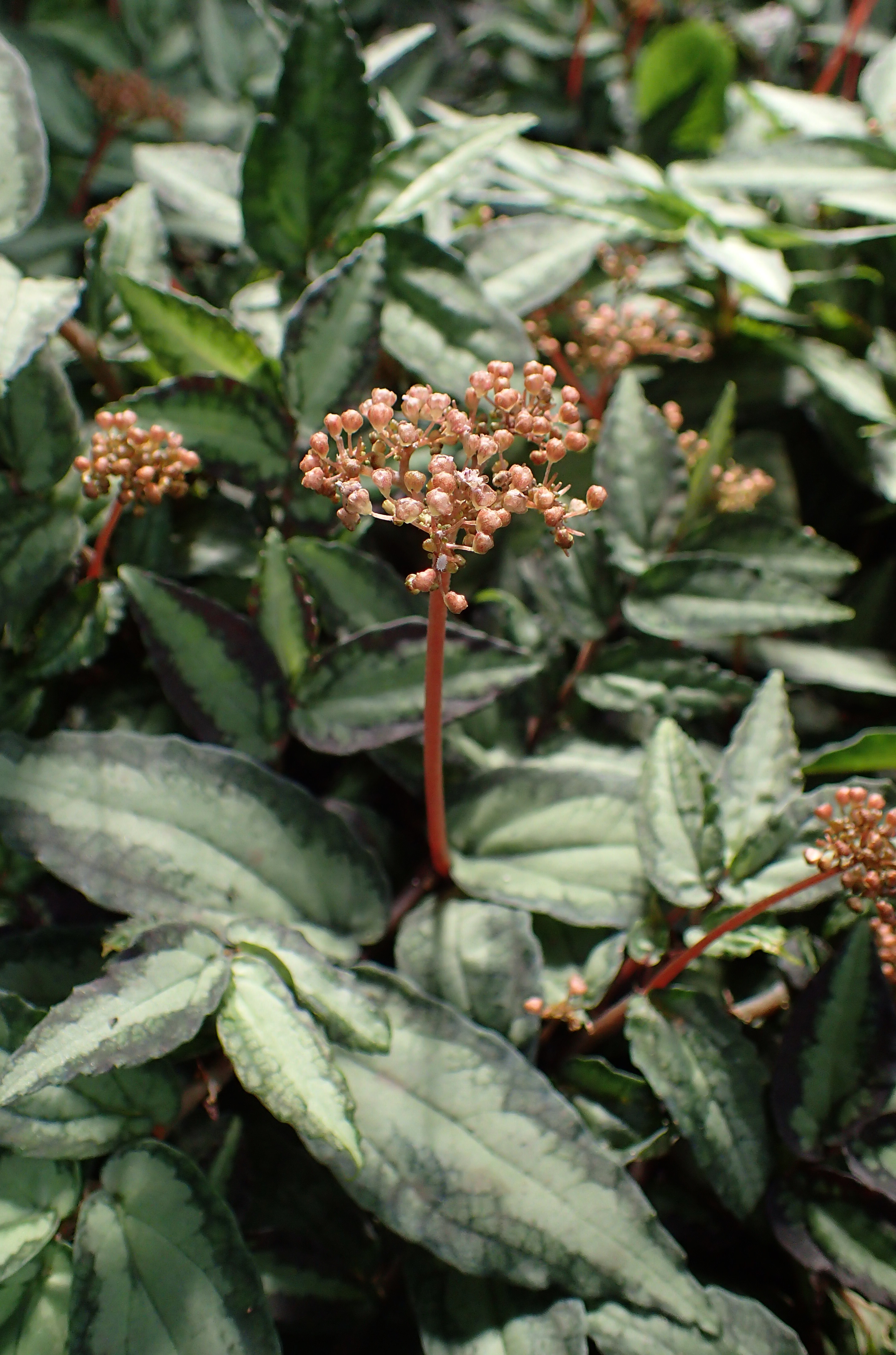 Pellionia repens in Lincoln Park Conservatory, Chicago